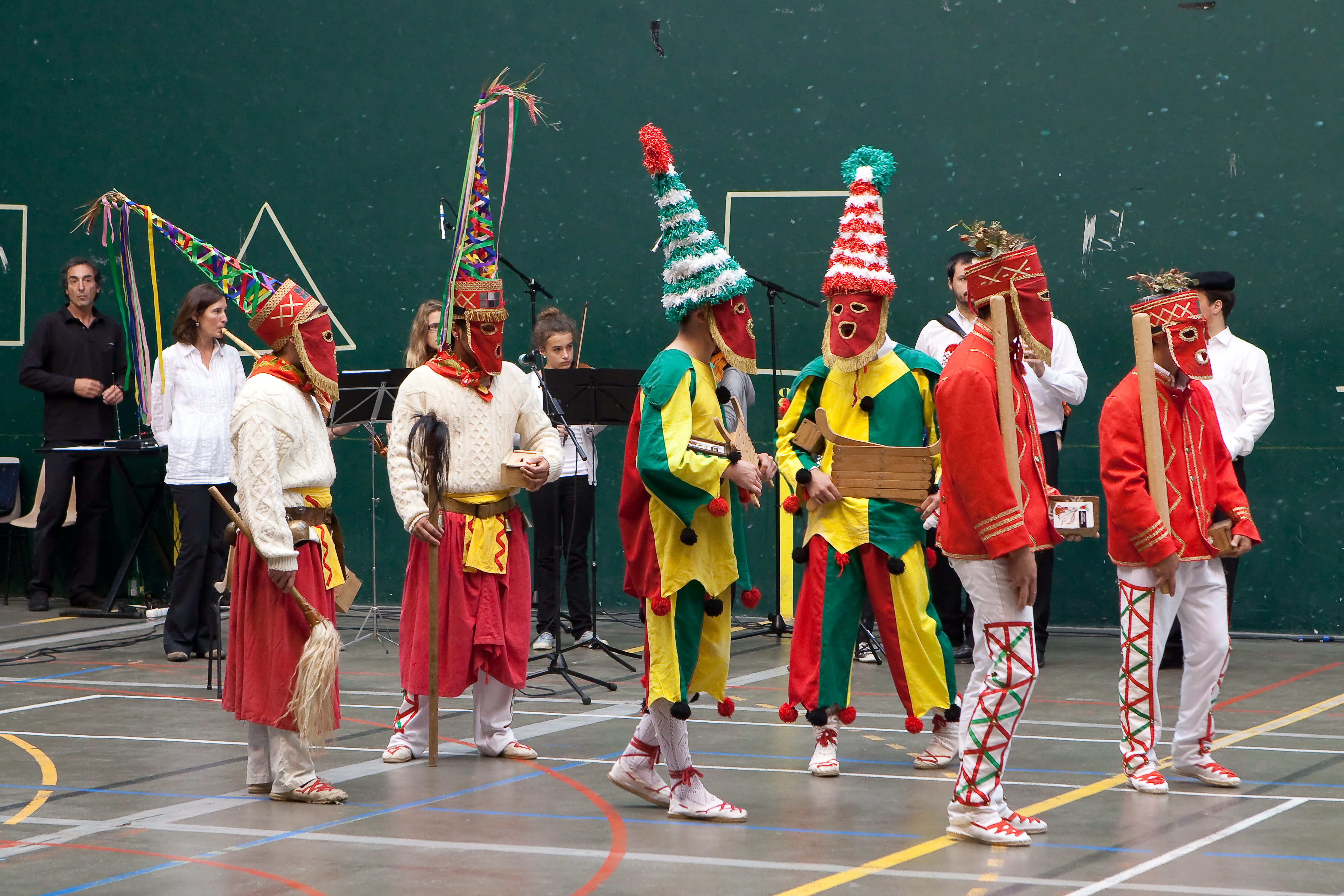 Carnival costumes in Uztaritze, Northern Basque Country.